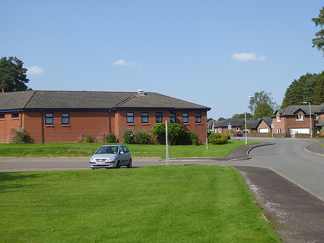 Lochmaben Community Hospital